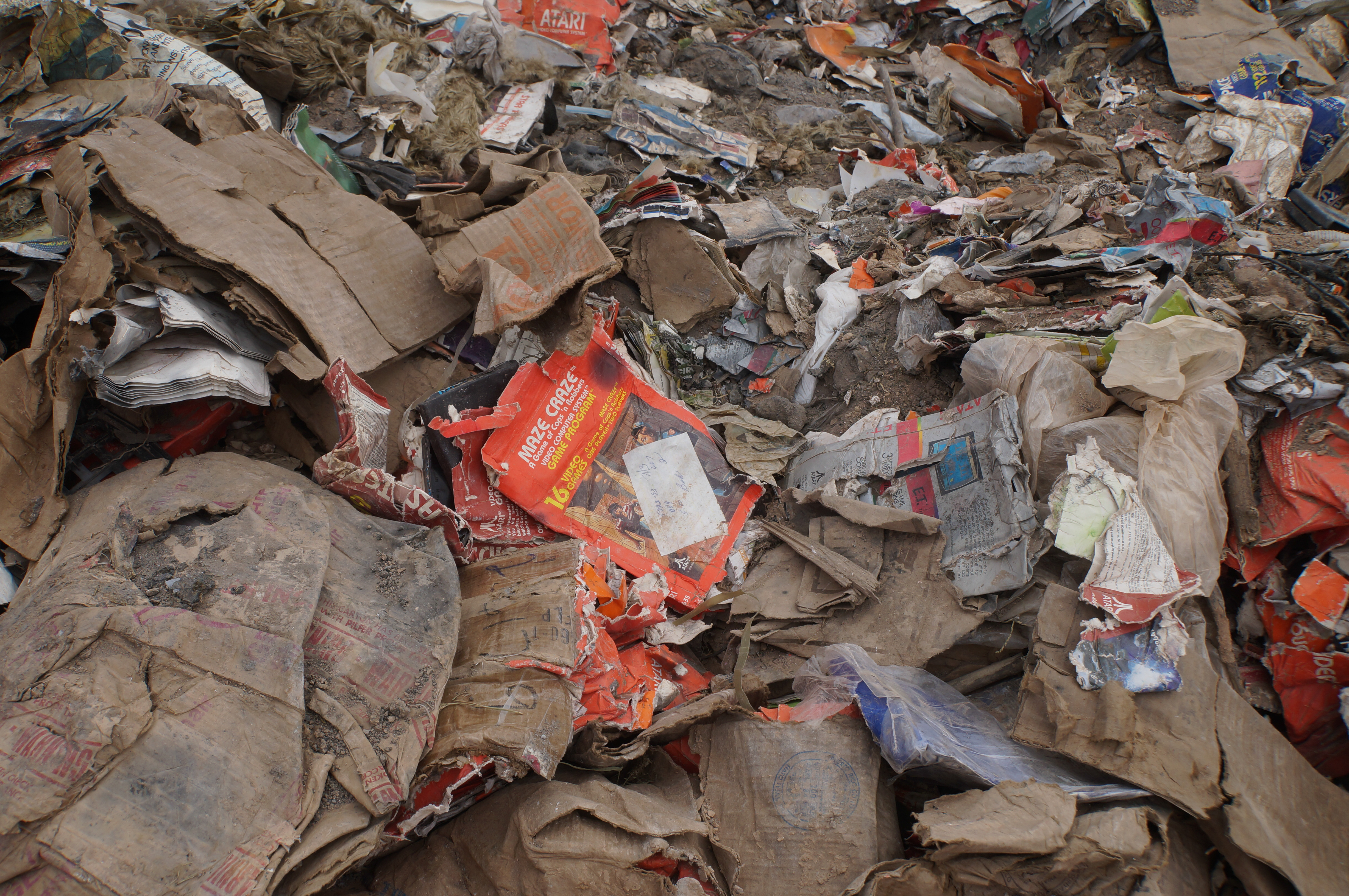 What Atari buried, beyond E.T.